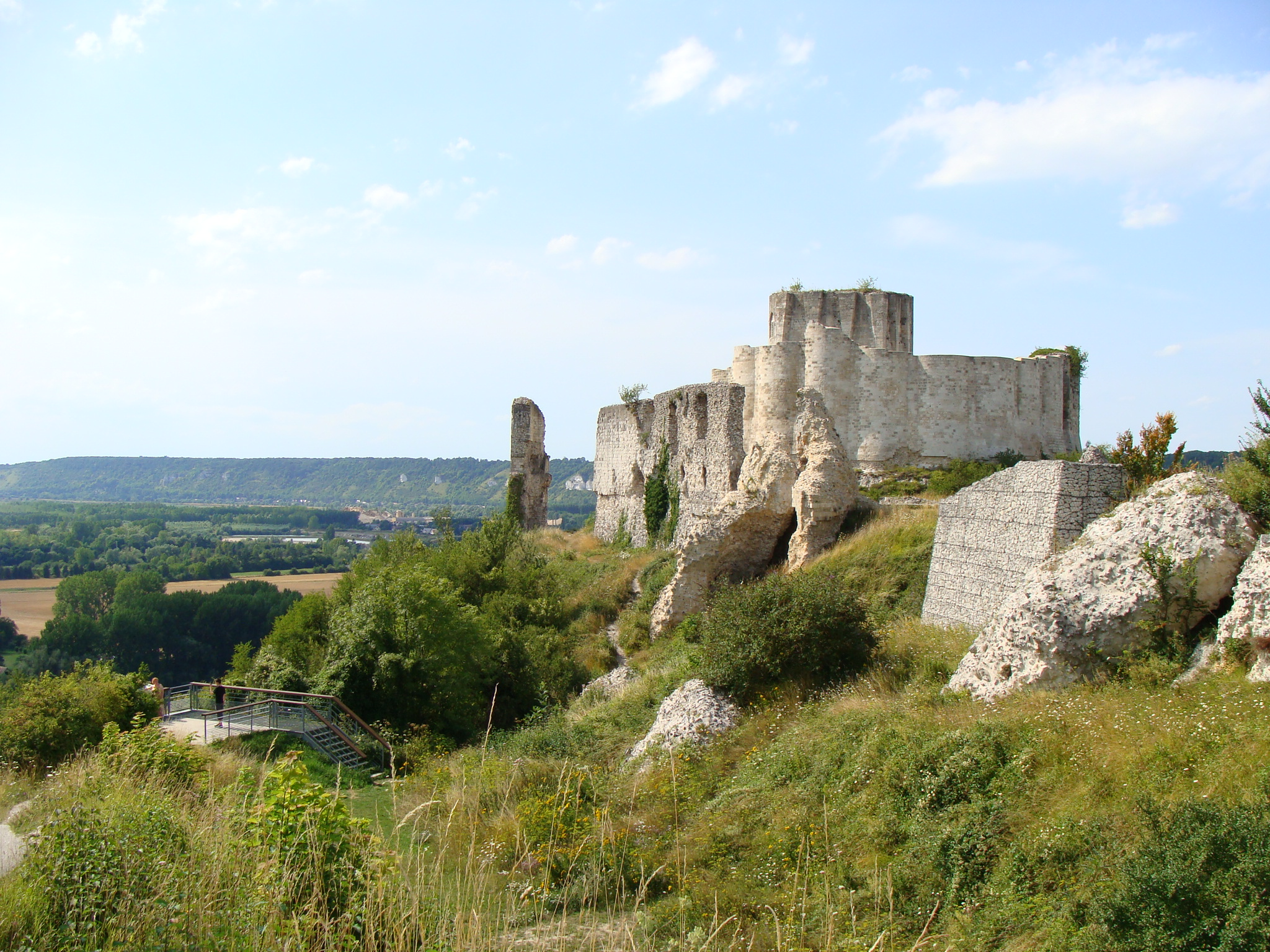 Castle of Château-Gaillard